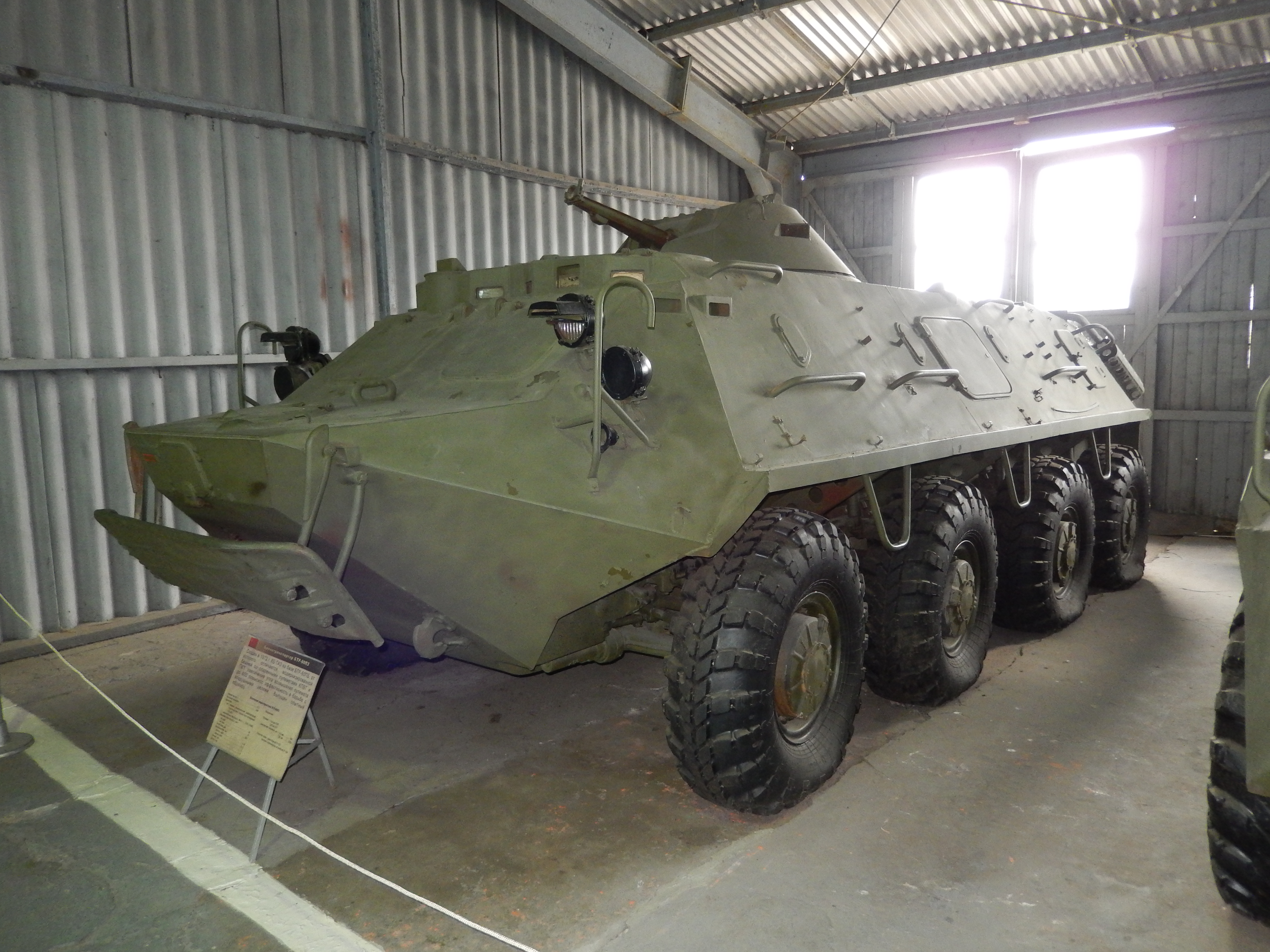 Experimental Wheeled Amphibious Armored Personnel Carrier BTR-60PZ in tank museum in Kubinka